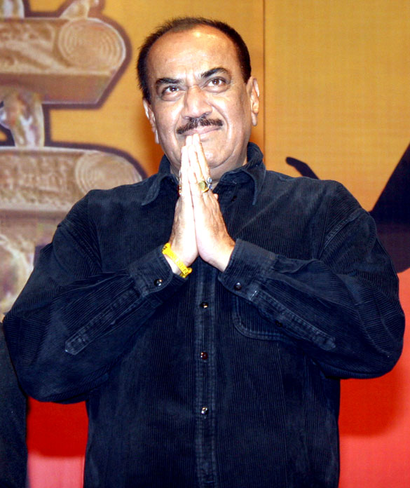 Shivaji Satam at Dadasaheb Ambedkar Awards organised by Kailash Masoom & Harish Shah